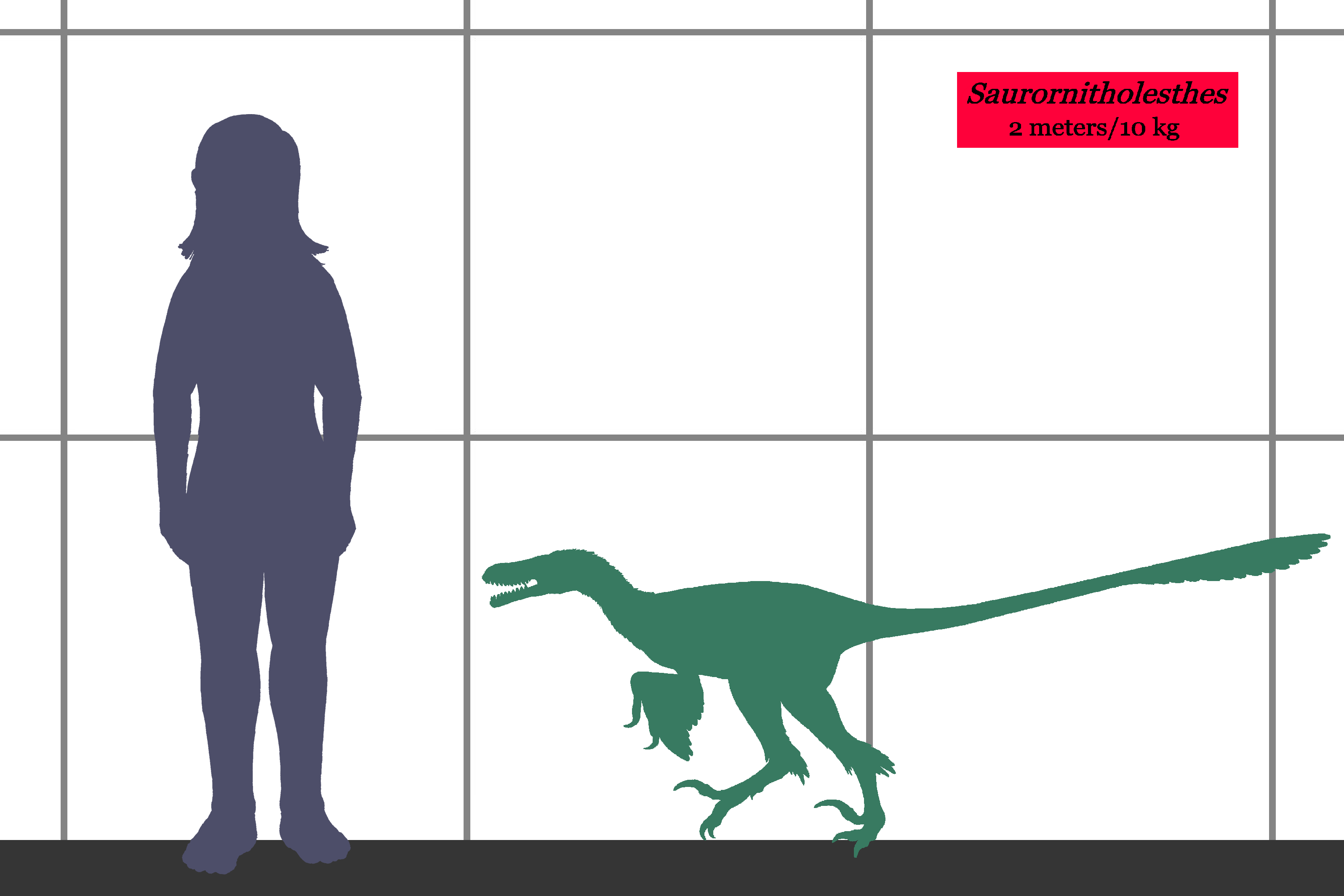 Size comparison between the dromaeosaurid dinosaur Saurornitholestes langstoni and a human. Saurornitholestes measured about 2 meter (6 feet) long,[1] and weighed about 10 kg (about 22 pound).[2] Much of the length were made up by the tail. The skull measured ca 20 cm. (about 7.5 - 8 inch) long.[1] References ↑ a b Currie P.J. & Koppelhus E.B., Dinosaur Provincial Park: a spectacular ancient ecosystem revealed, Vol. 1 (Indiana University Press, 2005), p. 372-373. ↑ Longrich N.R. & Currie P.J. (2009), "A microraptorine (Dinosauria–Dromaeosauridae) from the Late Cretaceous of North America", PNAS 106(13): p.5002-5007.